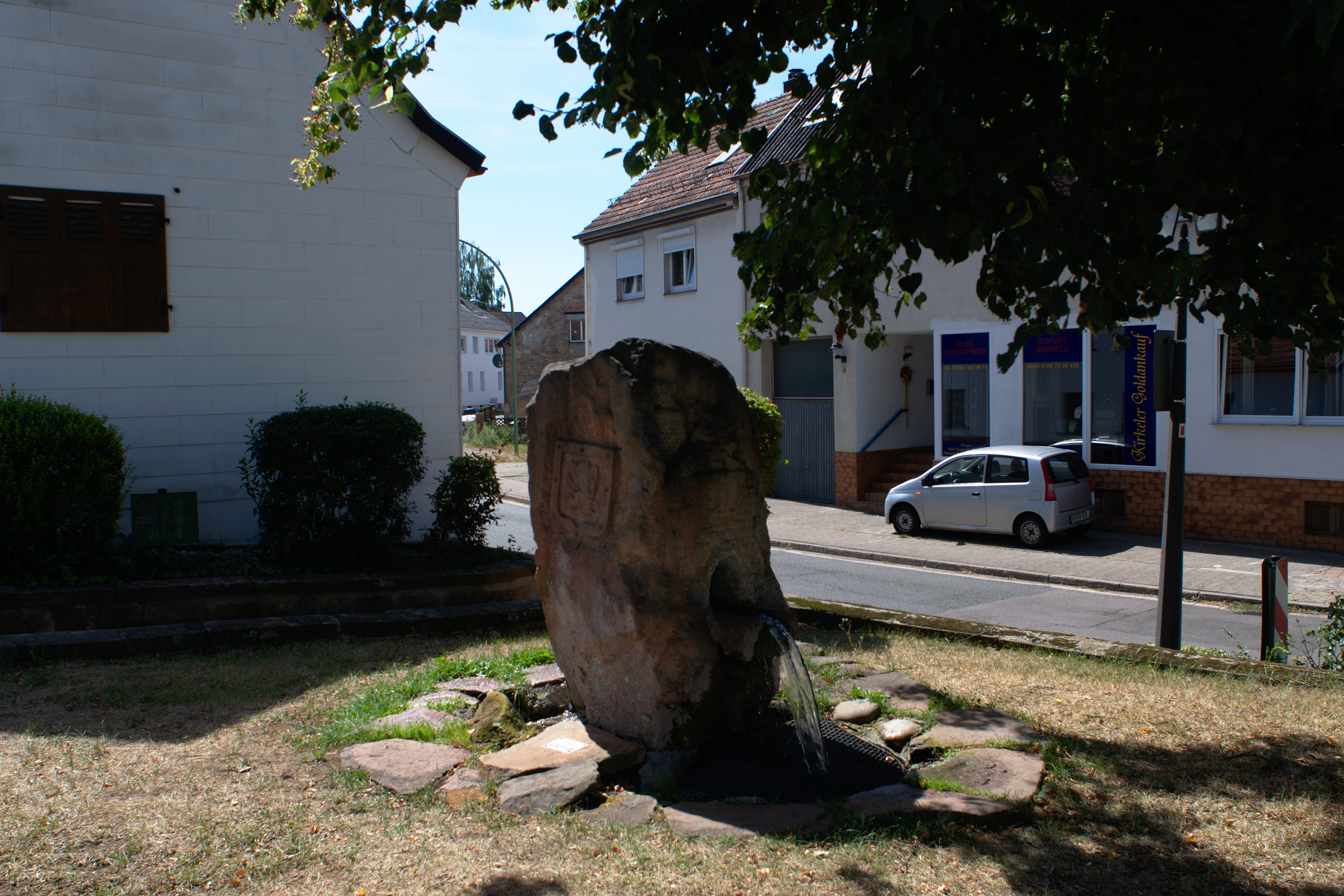 A fountains that represents the town twinning between Mauléon (Deux-Sèvres) and Kirkel. The coat of arms of the Mauléon is depicted on one side of the fountain.